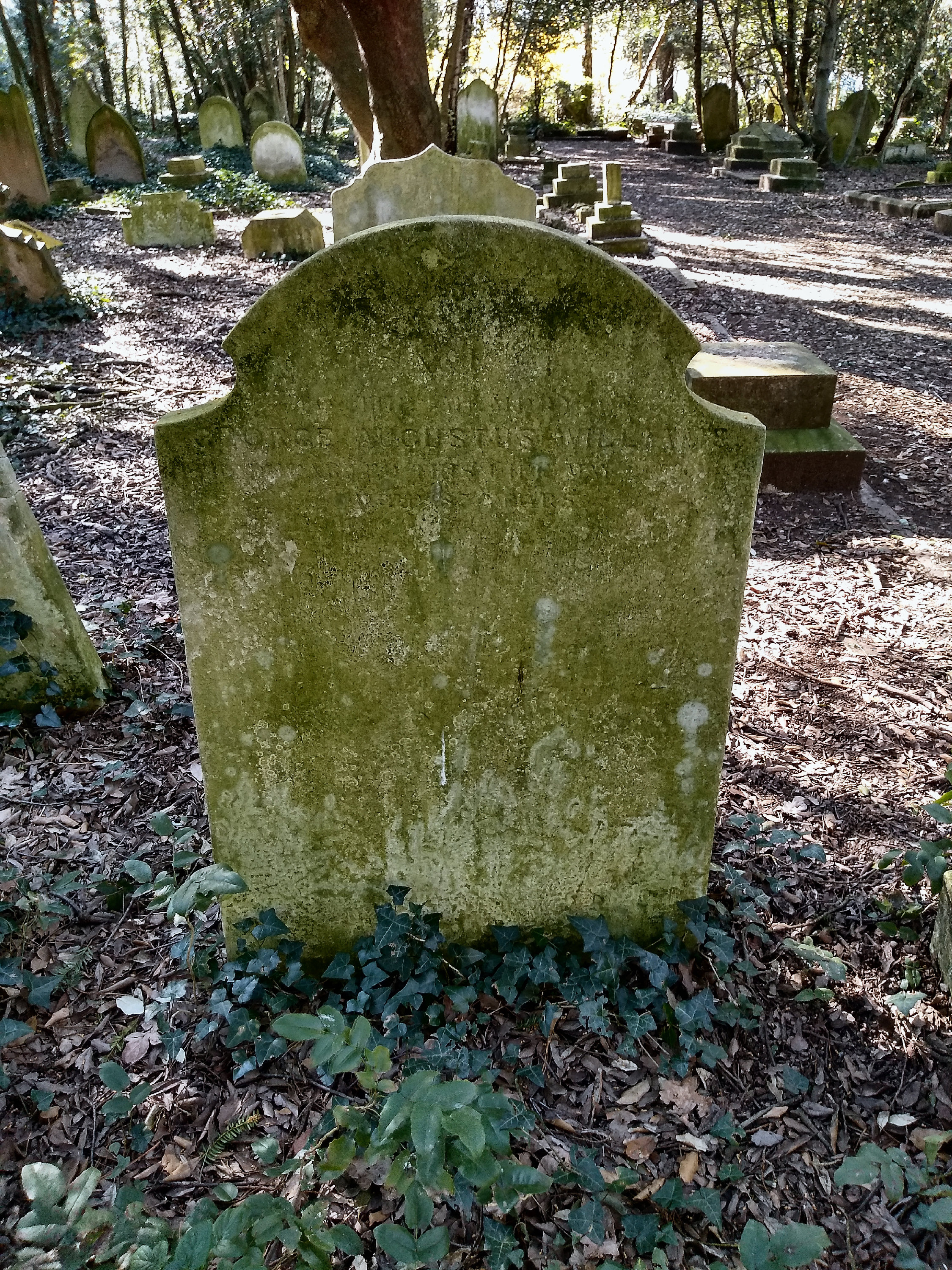 Barnes Old Cemetery, headstone of George Augustus Williams